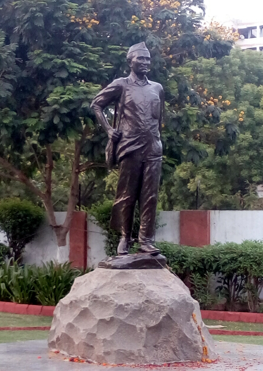 Indian independence activist and leader of Mahagujarat Agitation